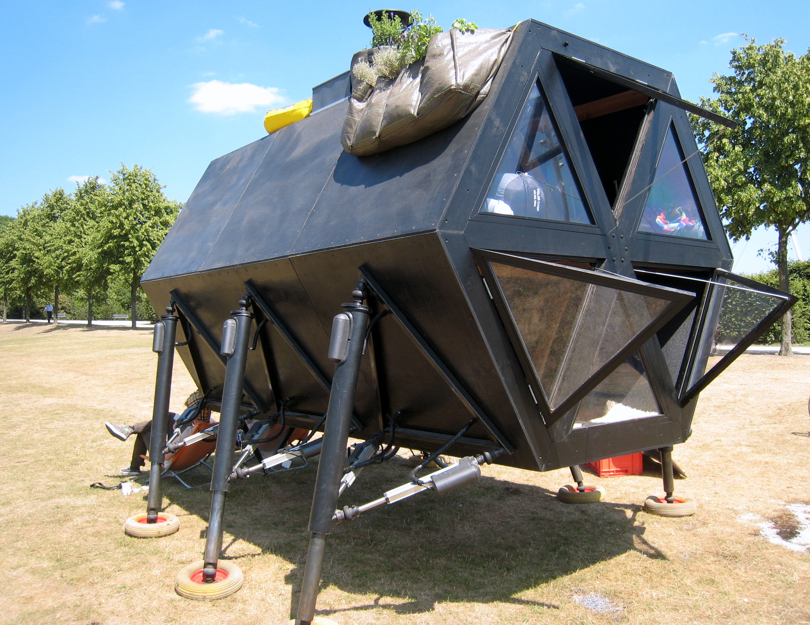 Walking House Emscherkunst 2010